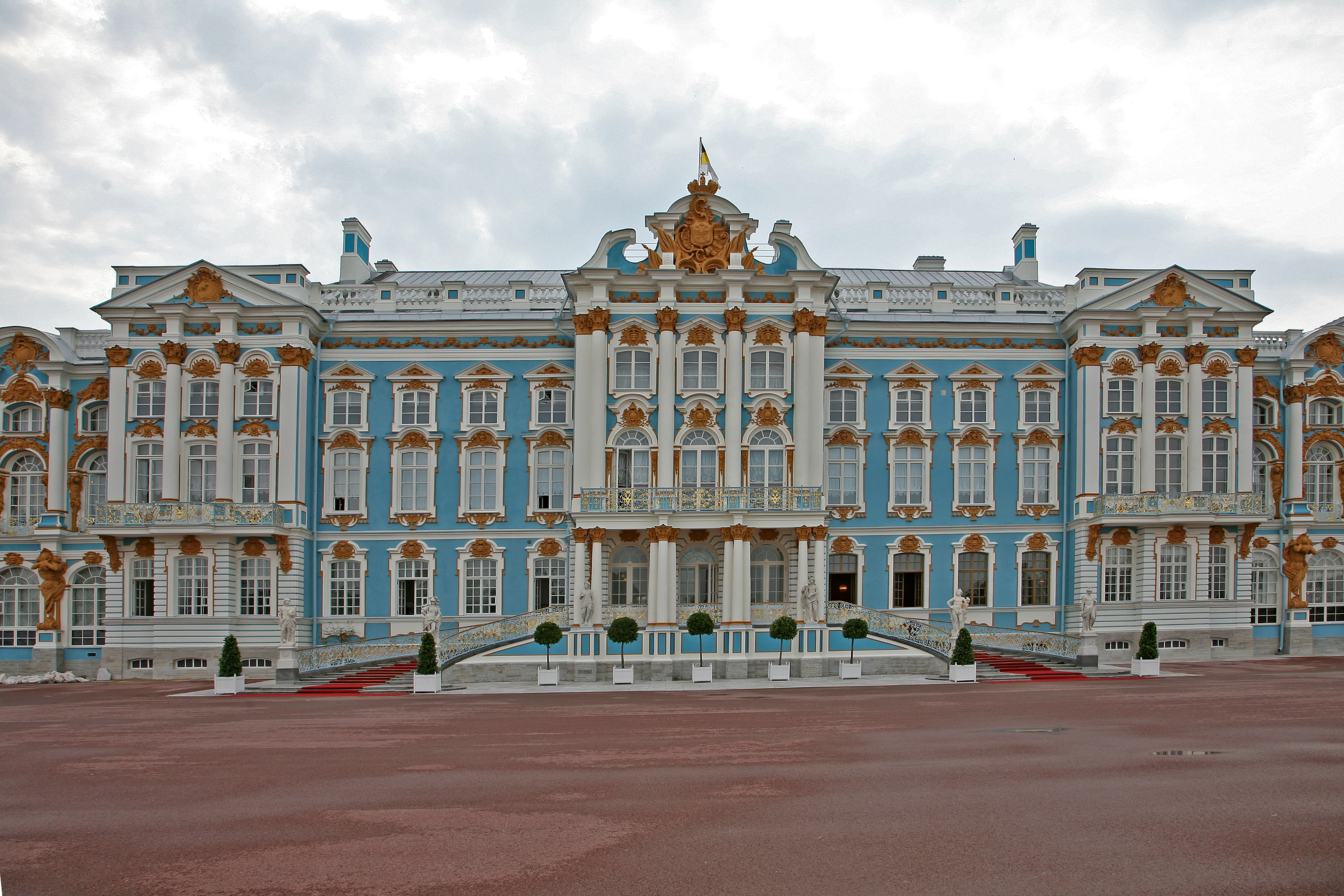 Facade of the Catherine Palace (Большой Екатерининский дворец) and the towers of the Resurrection Church in Pushkin. The former Russian royal residence has a façade of 300 meters in the colors white, blue and gold. Pushkin is a city near St. Petersburg, Russia.